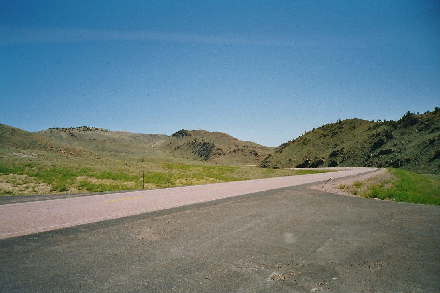 Morton Pass in Albany County SR34 (WY)